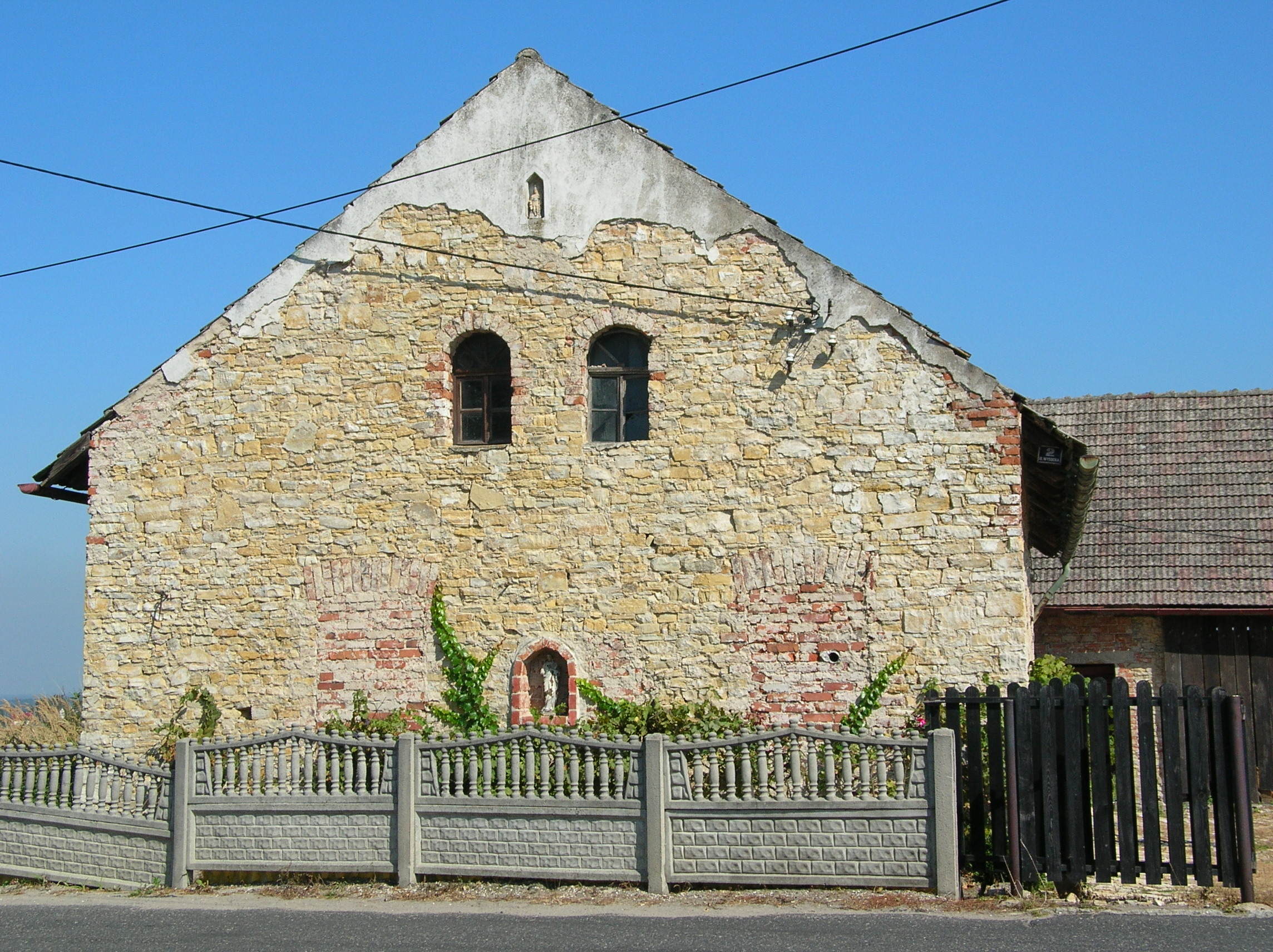 House at Ligota Górna